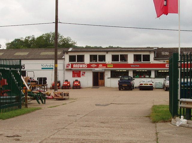 Agricultural engineers, Chesham. In this area of the Chilterns with some large gardens, ride-on mowers as well as larger machinery are stocked.